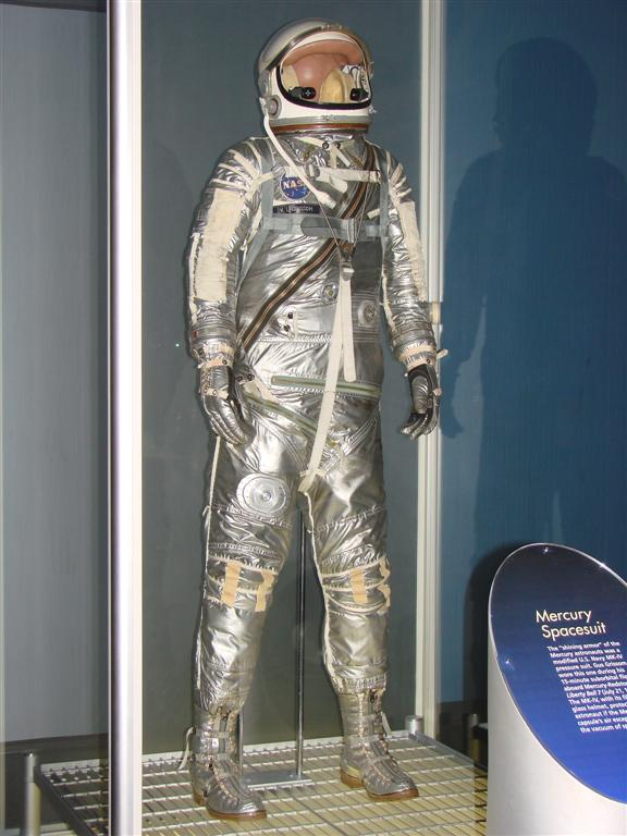 Modified US Navy MK-IV pressure suit worn by Gus Grissom during his 15-minute suborbital flight aboard Mercury-Redstone 4 Liberty Bell 7 (July 21, 1961). On display at the Astronaut Hall of Fame, Titusville, Florida, September 21, 2007.